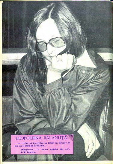 Romanian actress Leopoldina Bălănuță